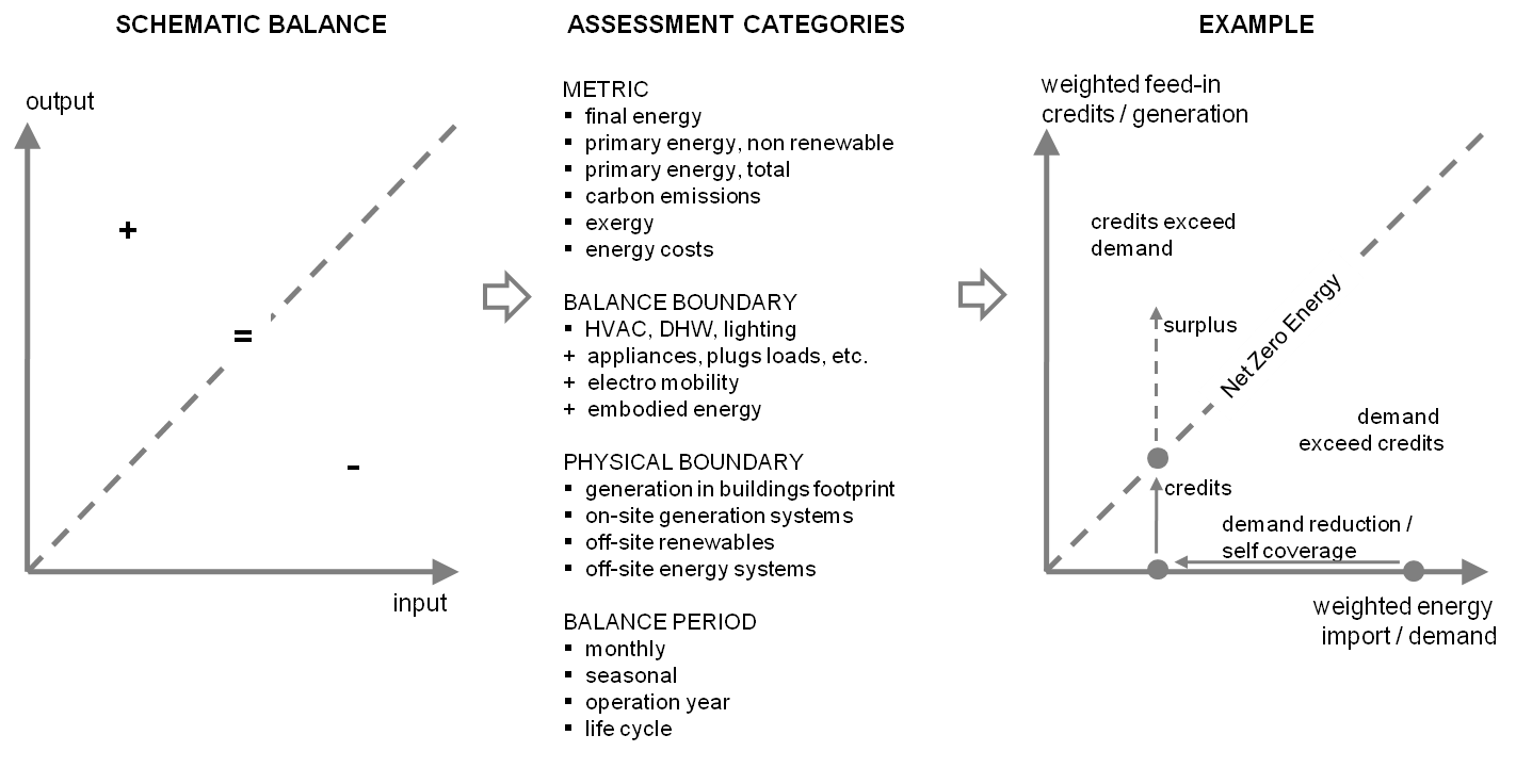 The graph represents the Net ZEB balance concept: balance of weighted energy import respectively energy demand (x-axis) and energy export (feed-in credits) respectively (on-site) generation (y-axis).